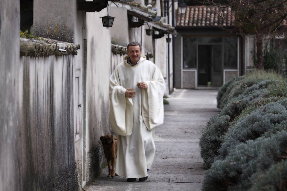 Zdjęcie przedstawia o. Romana Malaczewskiego. Dostałem zezwolenie na umieszczenie go.